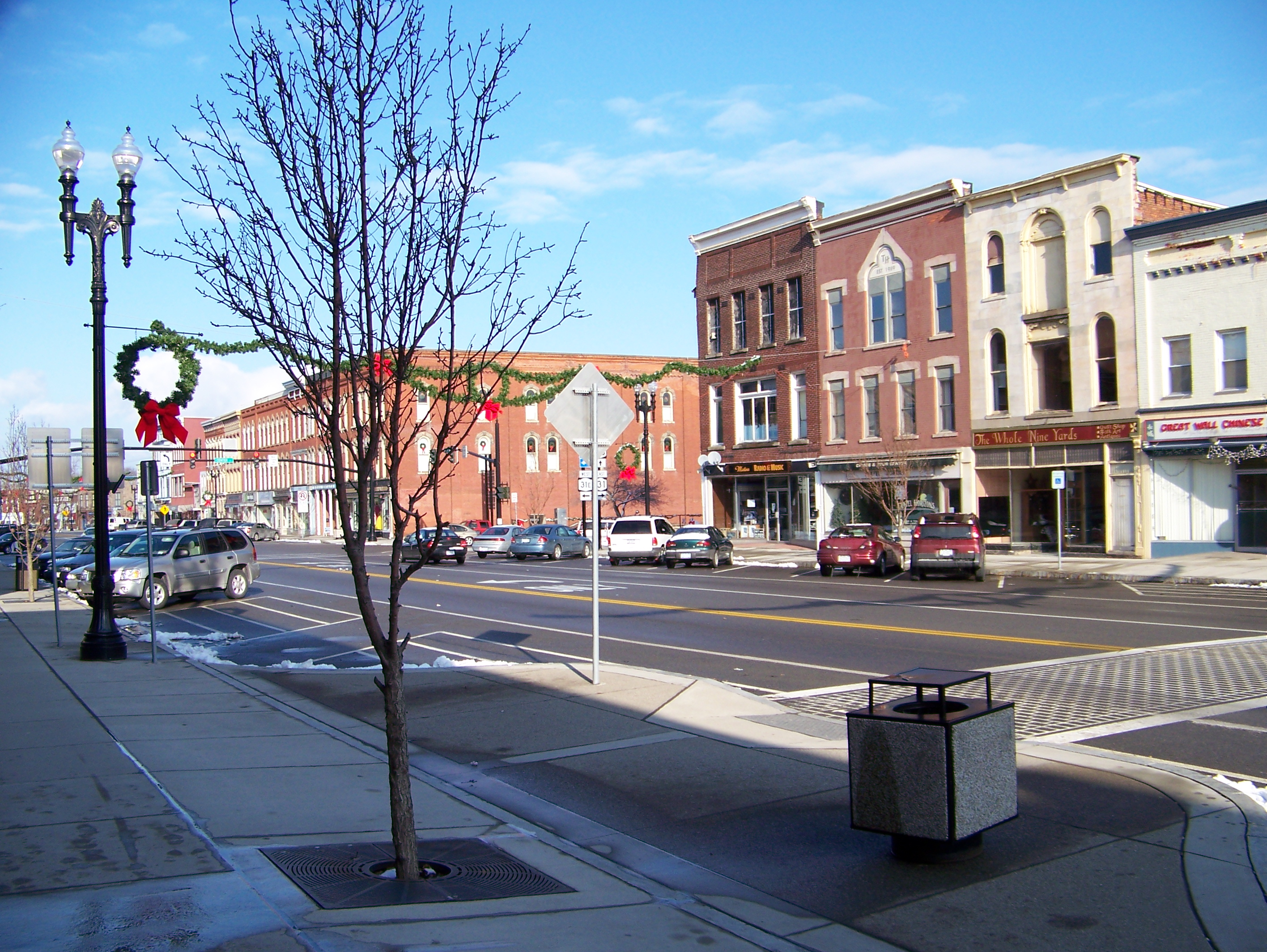 Medina, NY during the holidays